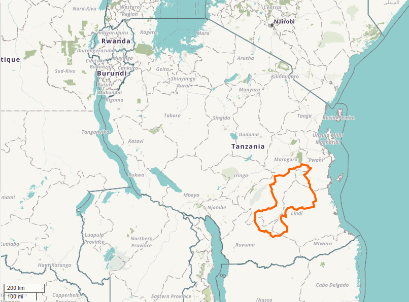 Selous Game Reserve location map This map of Tanzania was created from OpenStreetMap project data, collected by the community. This map may be incomplete, and may contain errors. Don't rely solely on it for navigation.